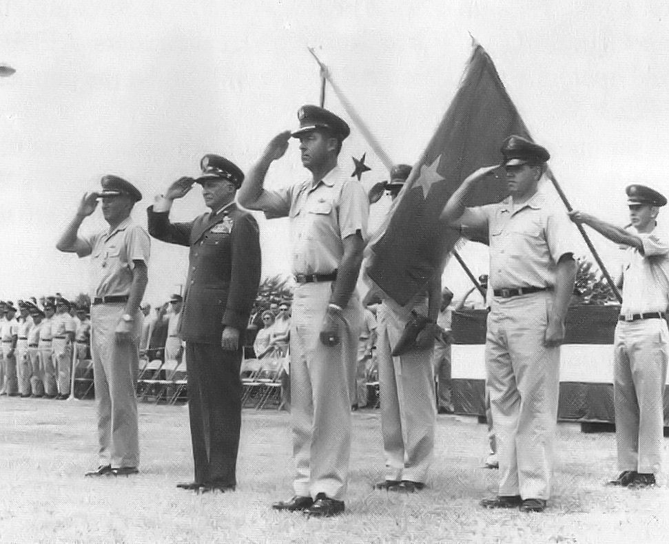 ConAC Inactivation Ceremonies - Robins AFB GA 31 July 1968